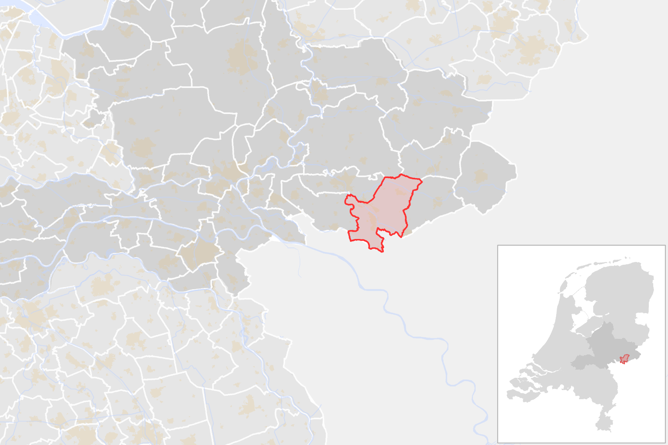 Locator map showing municipality boundary of one of the 390 Dutch municipalities (as of 2016)